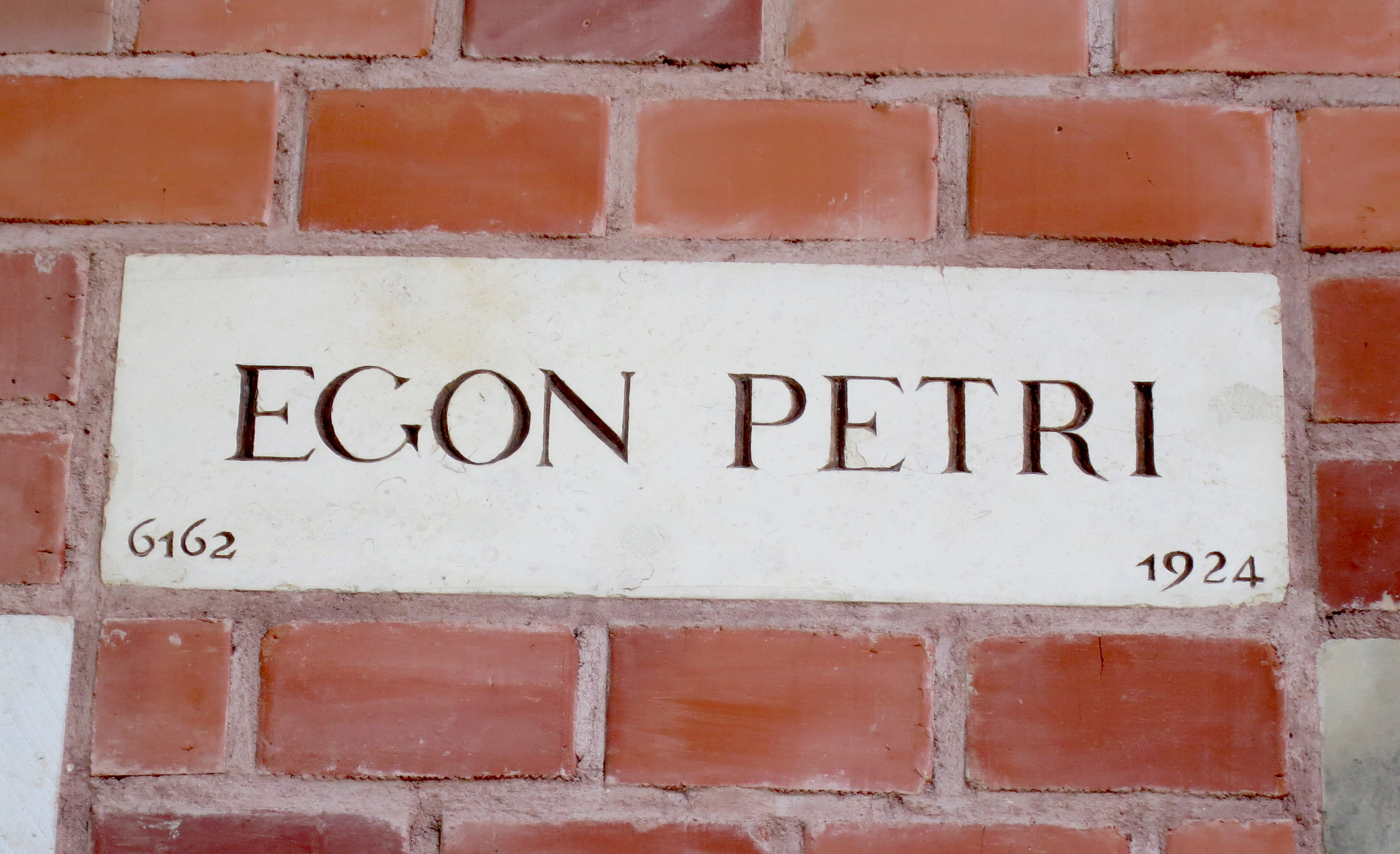 The donor brick of Egon Petri who donated money for the renovation of Wawel Royal Castle in Cracow, Poland (1924).